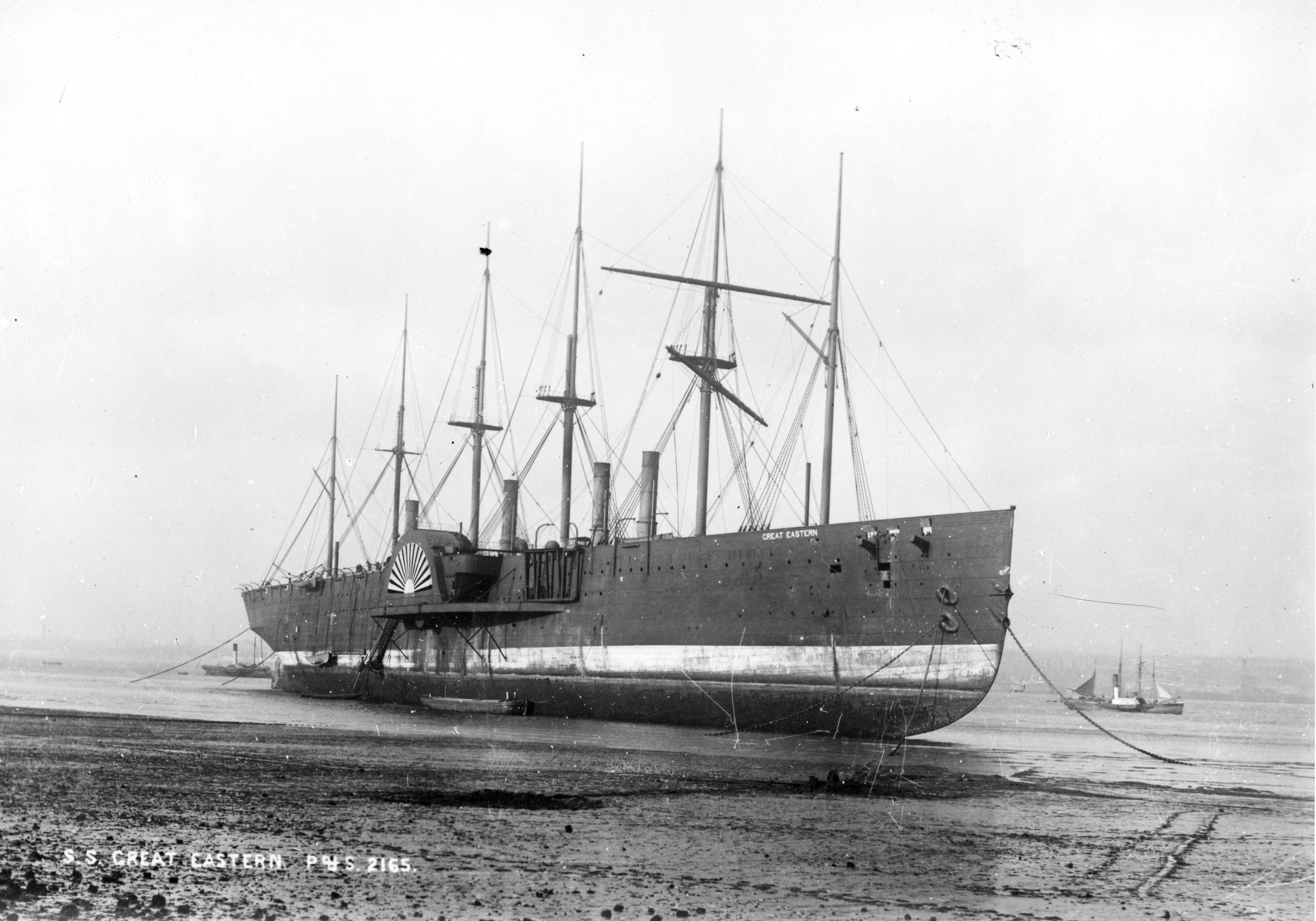 SS Great Eastern, apparently beached to be broken up at Rock Ferry